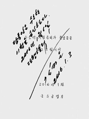 Original caption: “Kim Jong Un, ... signed the final written order on Jan. 3, Juche 105 (2016).” — WPK Central Committee Issues Order to Conduct First H-Bomb Test. Rodong Sinmun (January 7, 2016).